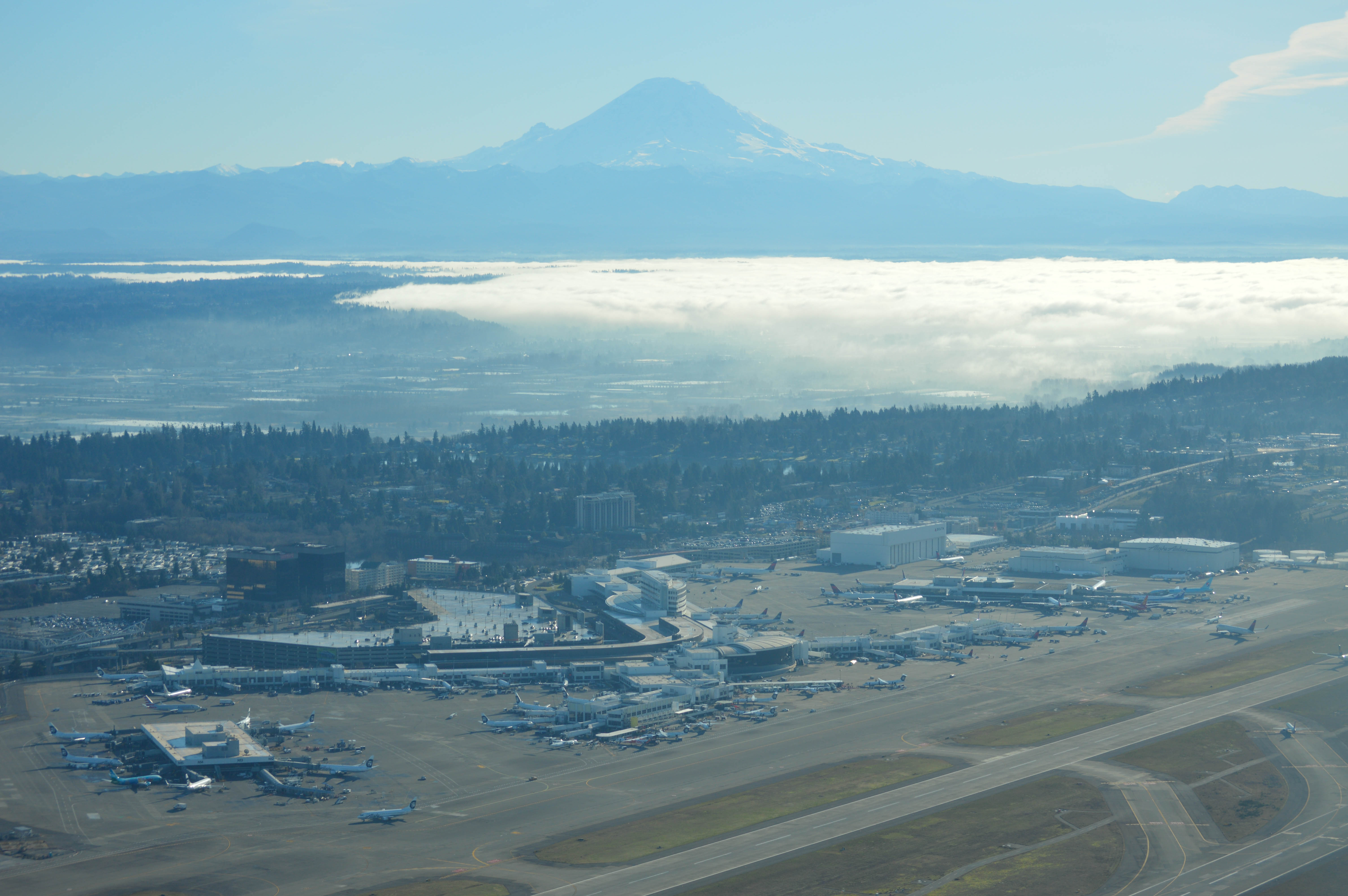 Sea Tac terminal buildings with Mt. Rainier in the background